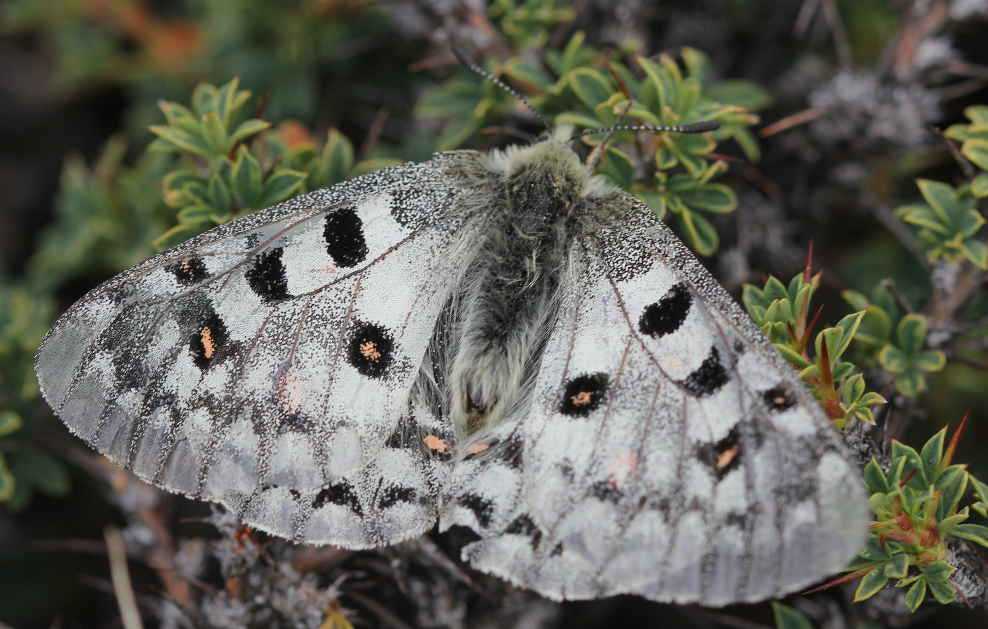 Common Red Apollo from Spiti , India